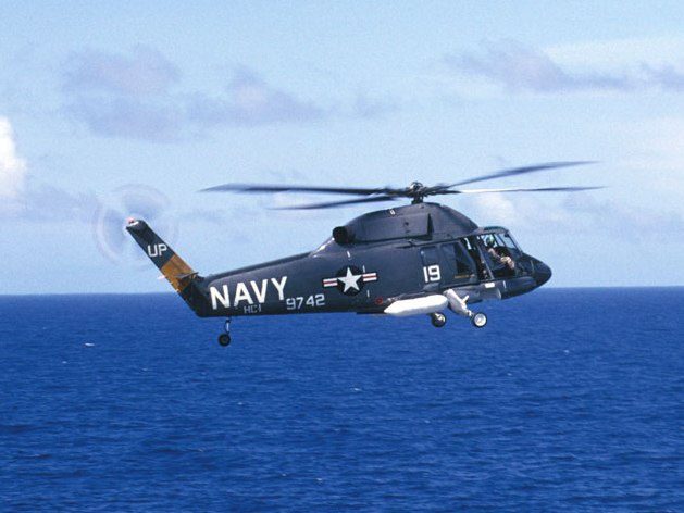 A Kaman UH-2A Seasprite plane guard helicopter (BuNo 149742) of helicopter combat support squadron HC-1 Det. C Pacific Fleet Angels hovering over the aircraft carrier USS Kitty Hawk (CVA-63) during a deployment to Vietnam in March 1966.